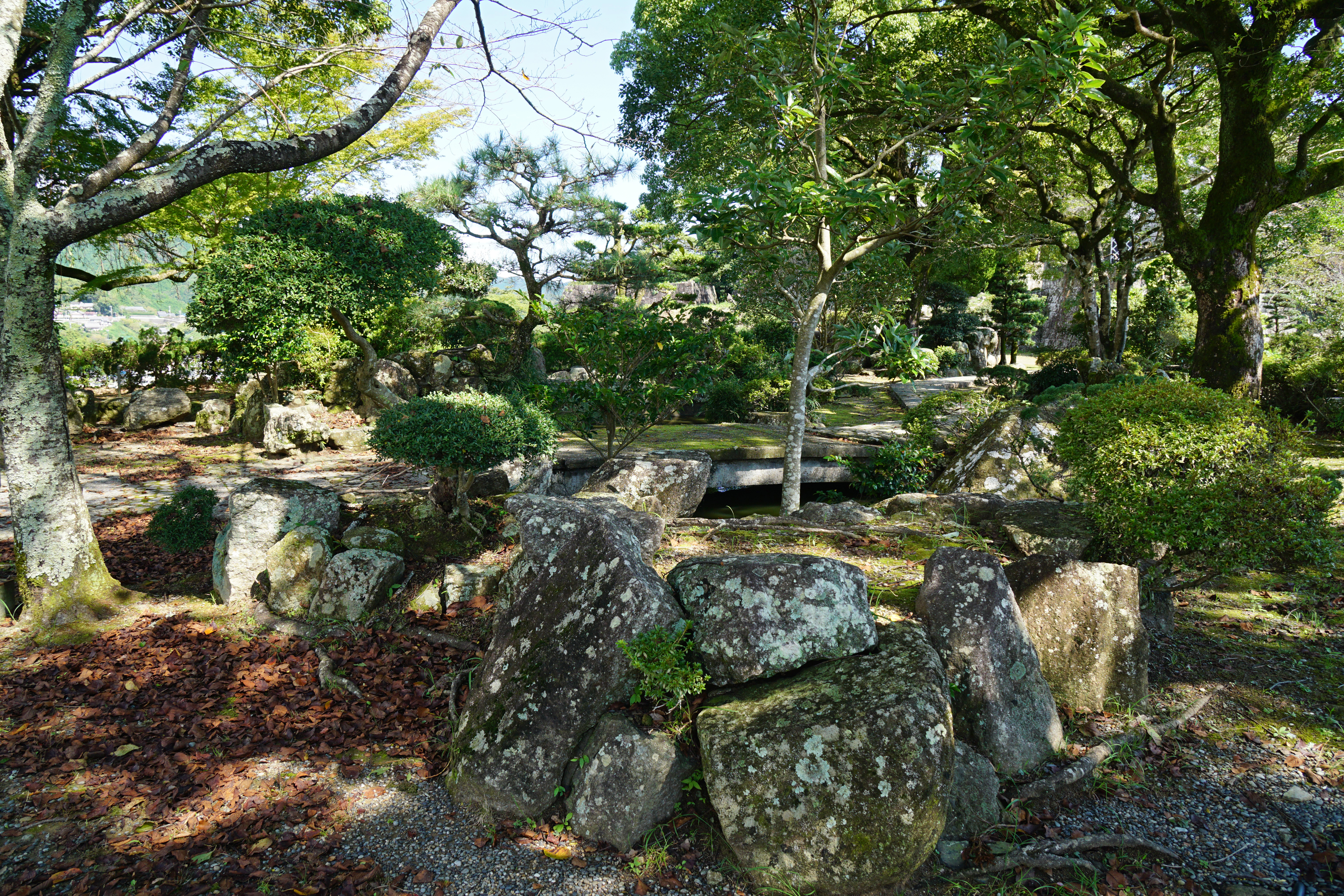 Shingū Castle in Shingū, Wakayama prefecture, Japan